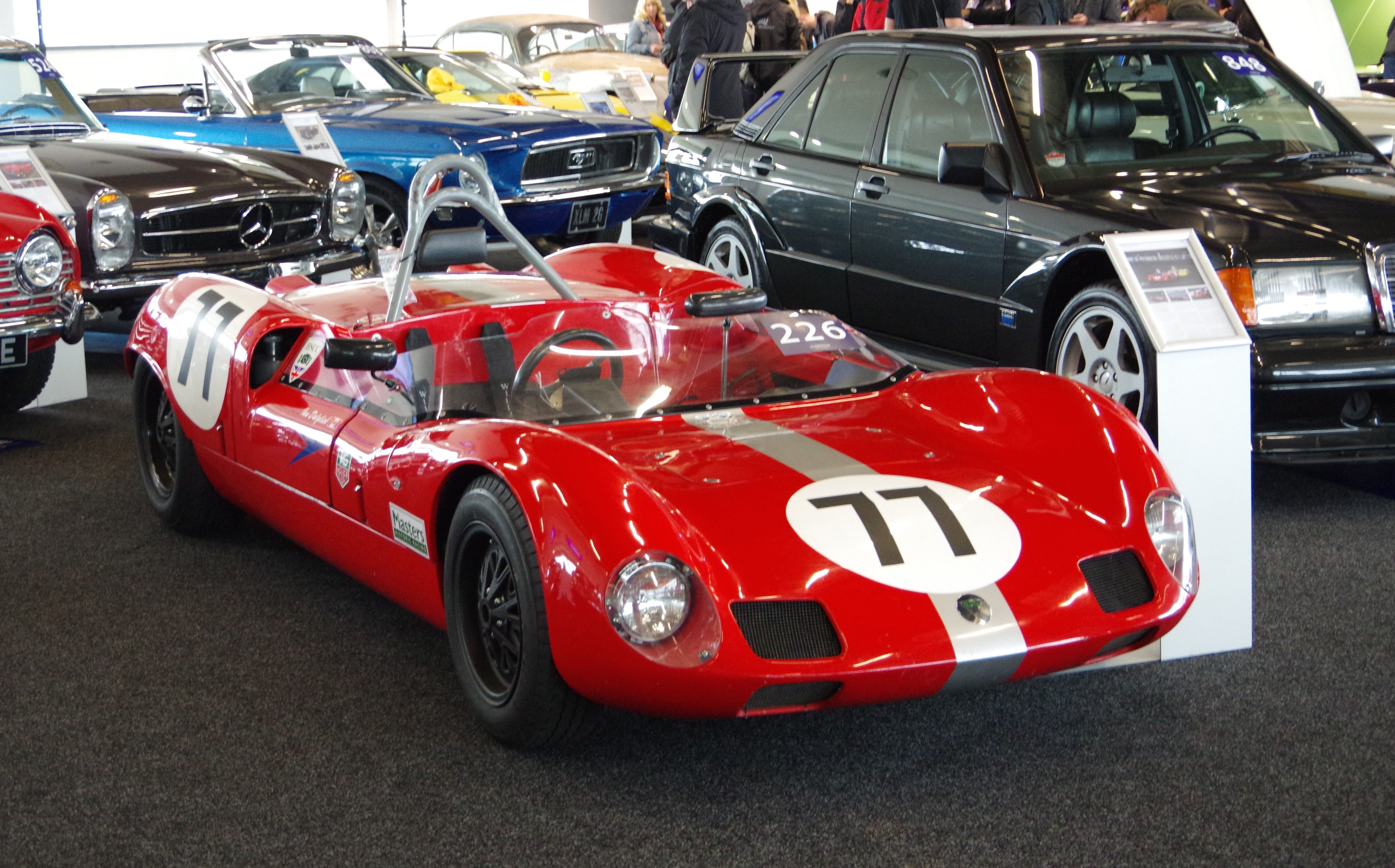 Bonham's Auction, Silverstone Classic 2015 Auction Estimate: £70,000 to £85,000